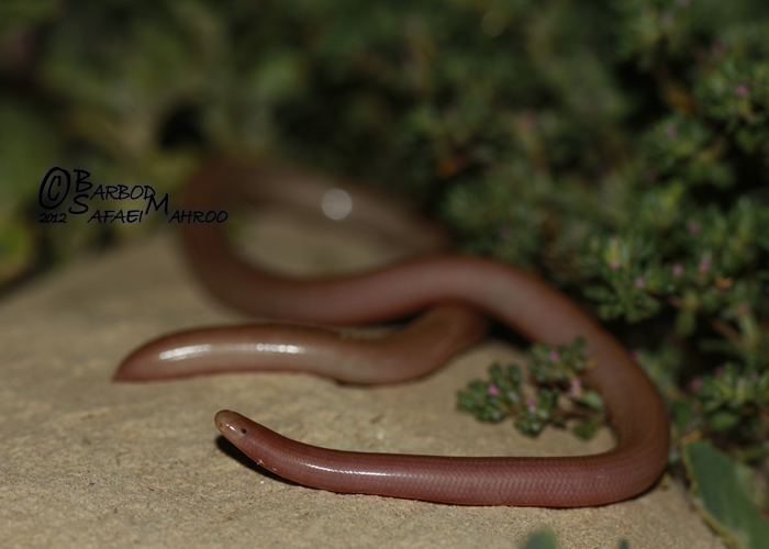 Typhlops wilsoni in Bone Hajat, Shilab bagher, Haft tappeh, Khuzestan Province, Iran